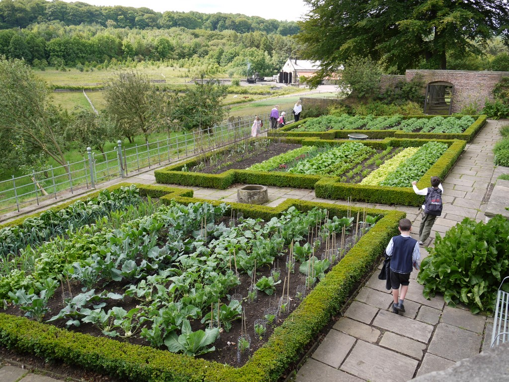 Pockerley Old Hall in Beamish Museum, County Durham, England. This is the view south west across the vegetable garden. In the distance is the Great Shed of the Pockerley Waggonway.